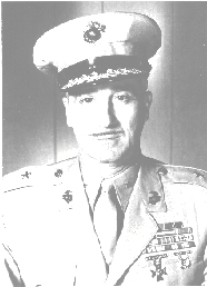 This photograph is taken from an official USMC biography of Frederick Karch, is the work of a US government agency.